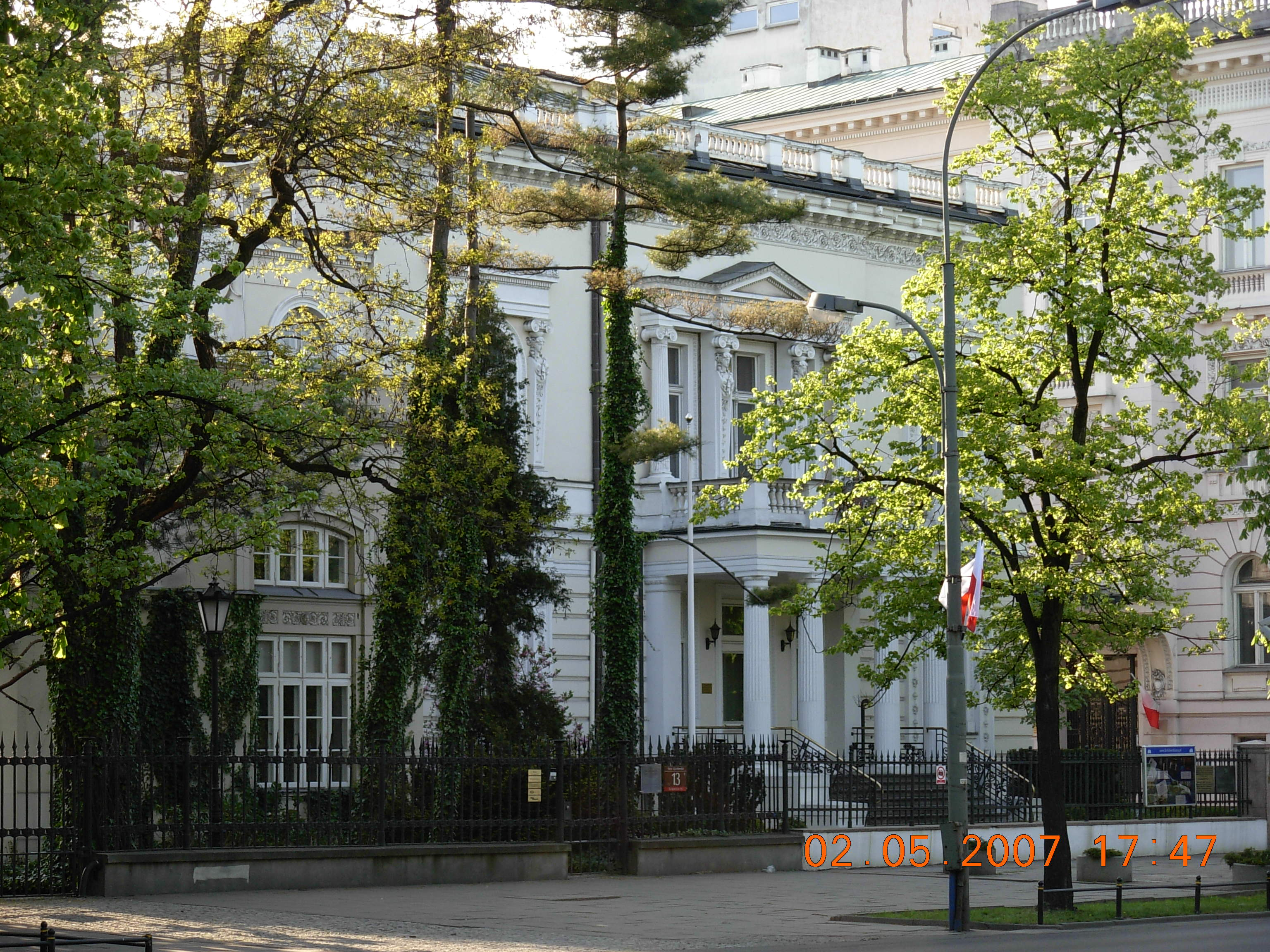 British Embassy in Warsaw